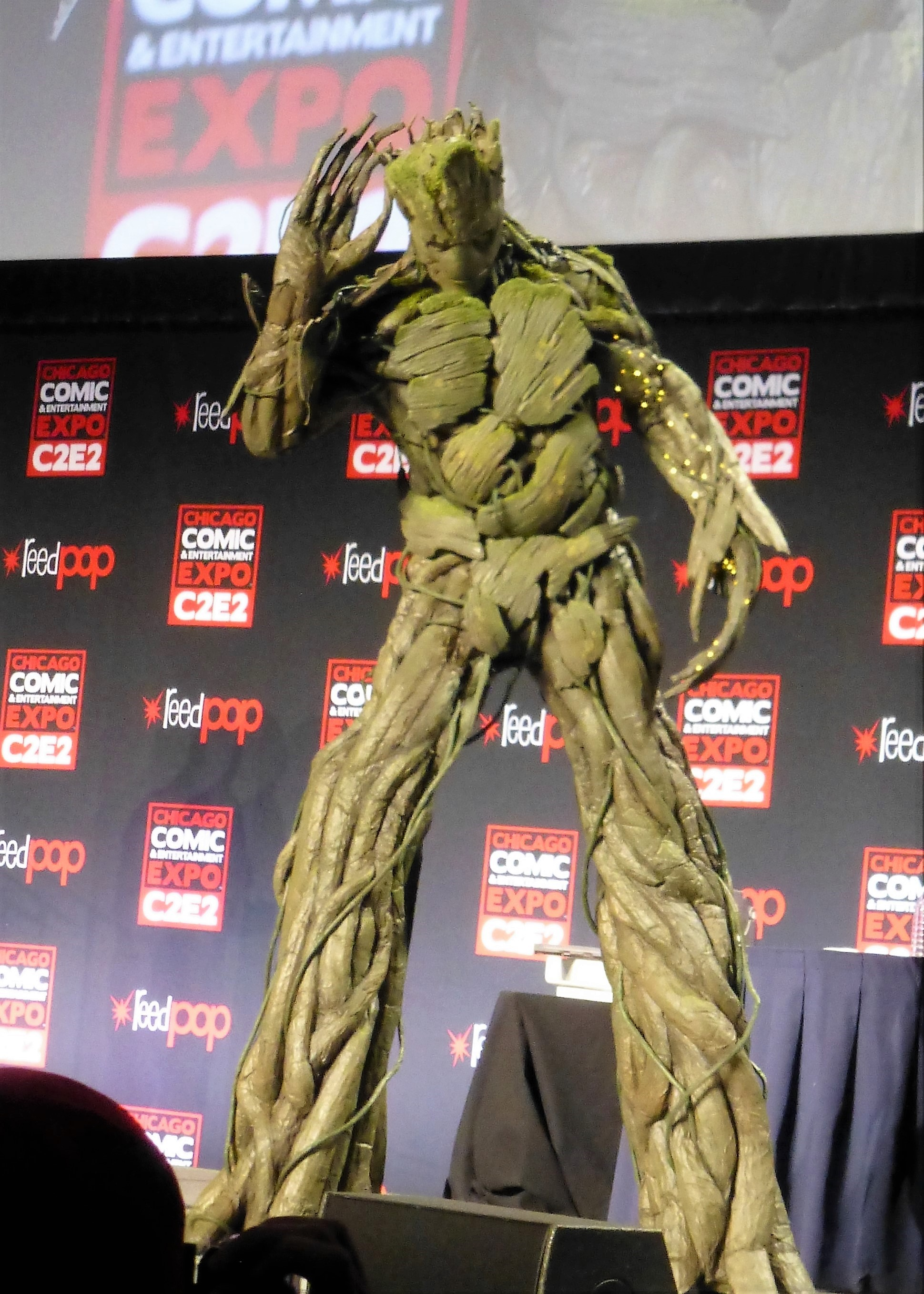 Calen Hoffman (also known as Propcustomz) cosplaying as Groot (from Guardians of the Galaxy and Marvel Comics) in the Third Annual ReedPOP Crown Championships of Cosplay held at Chicago Comic & Entertainment Expo (C2E2) 2016.